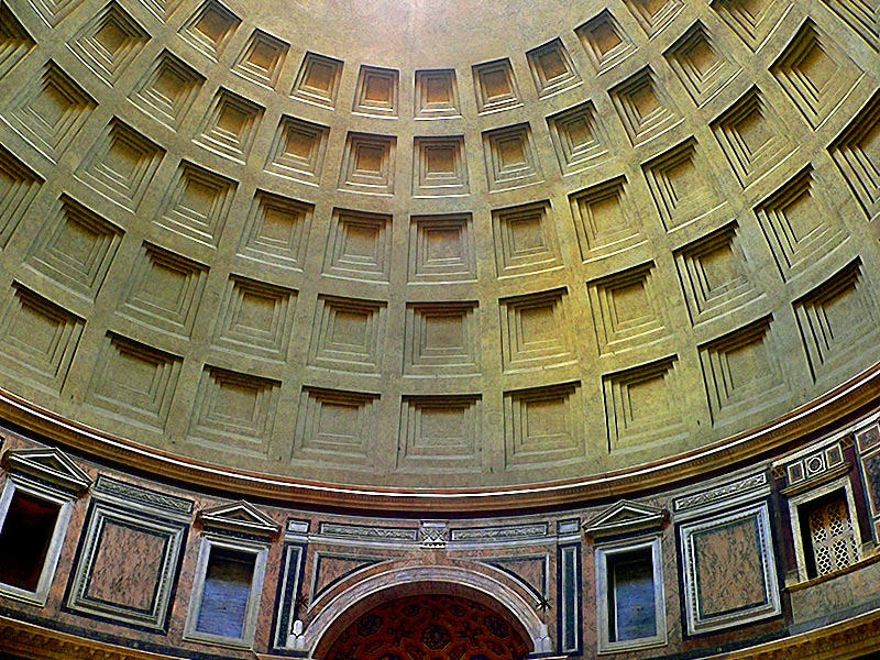 Pantheon, Rome (Italy).